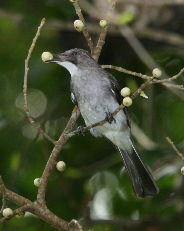 Ashy Bulbul, Hemixos flavala cinereus Changi Village, Singapore 2nd. January 2006